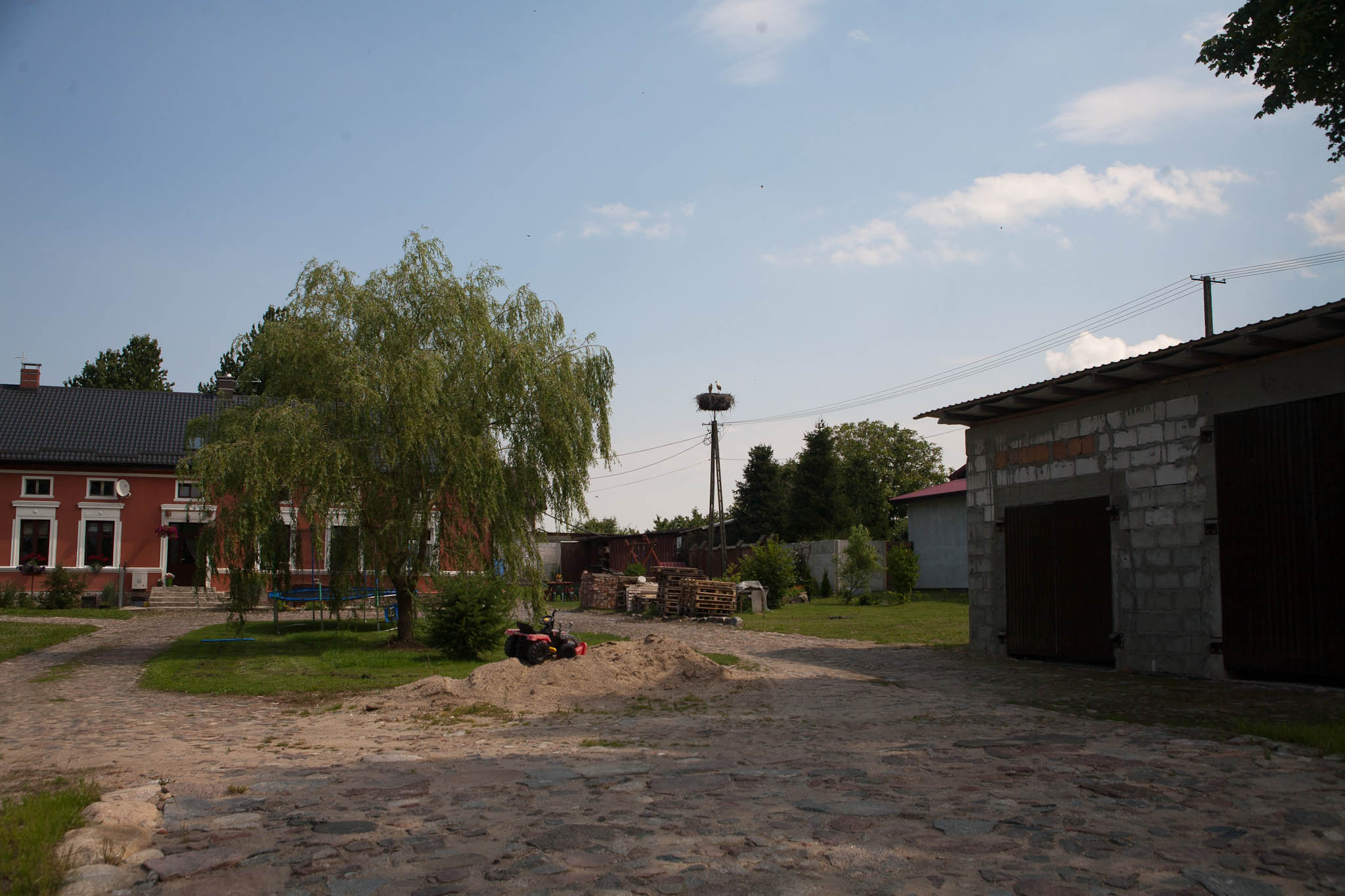 stork nest in Ołużna, Poland